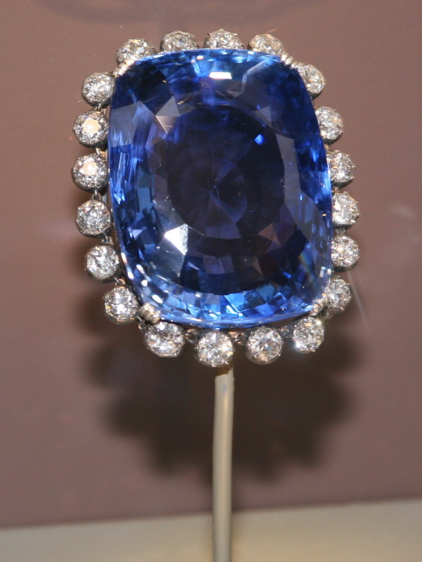 Logan sapphire with diamonds, National Museum of Natural History, Washington DC